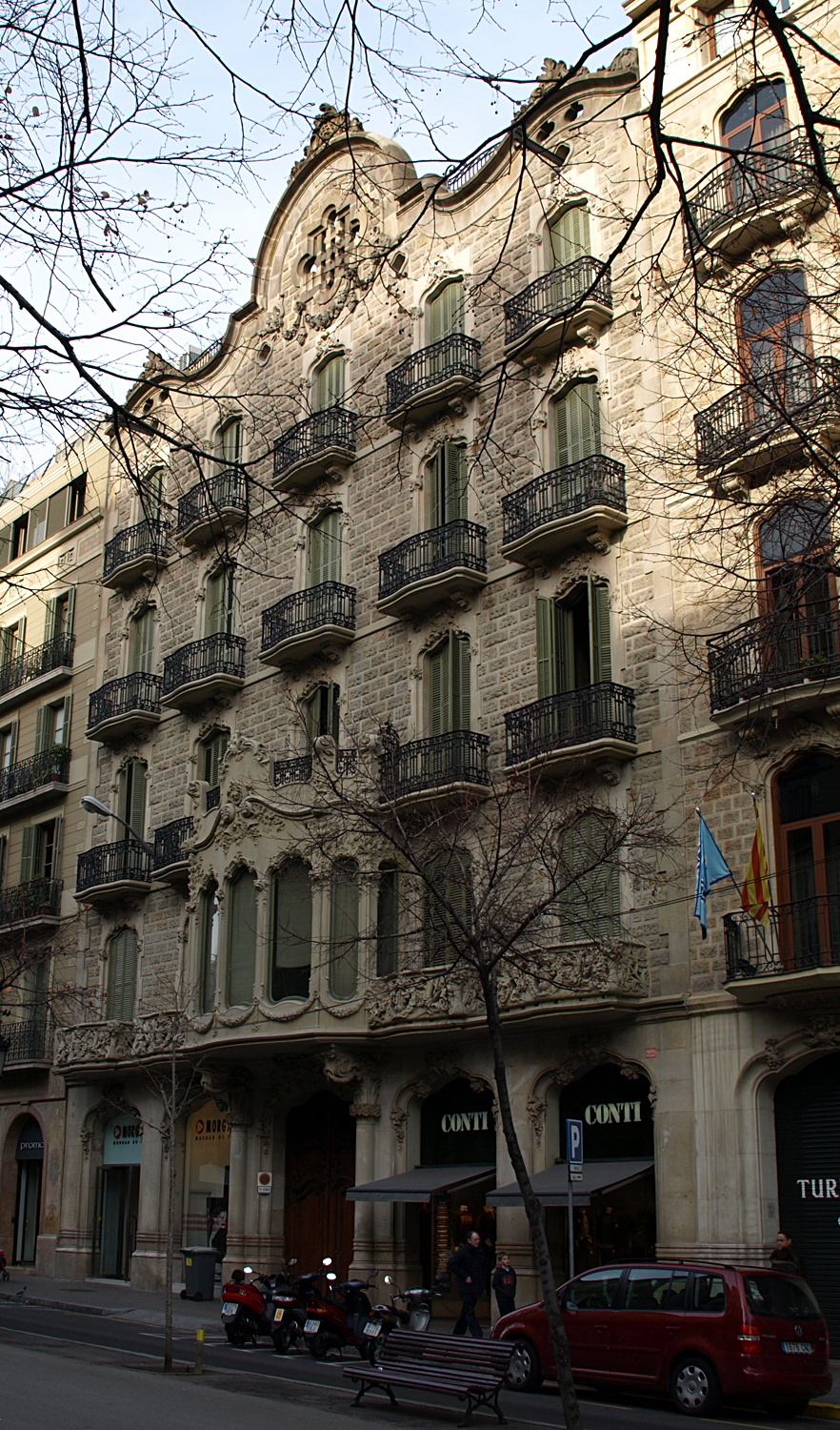 Casa Juncosa - Catalan Modernisme (1907 - 1909, Salvador Viñals i Sabaté)